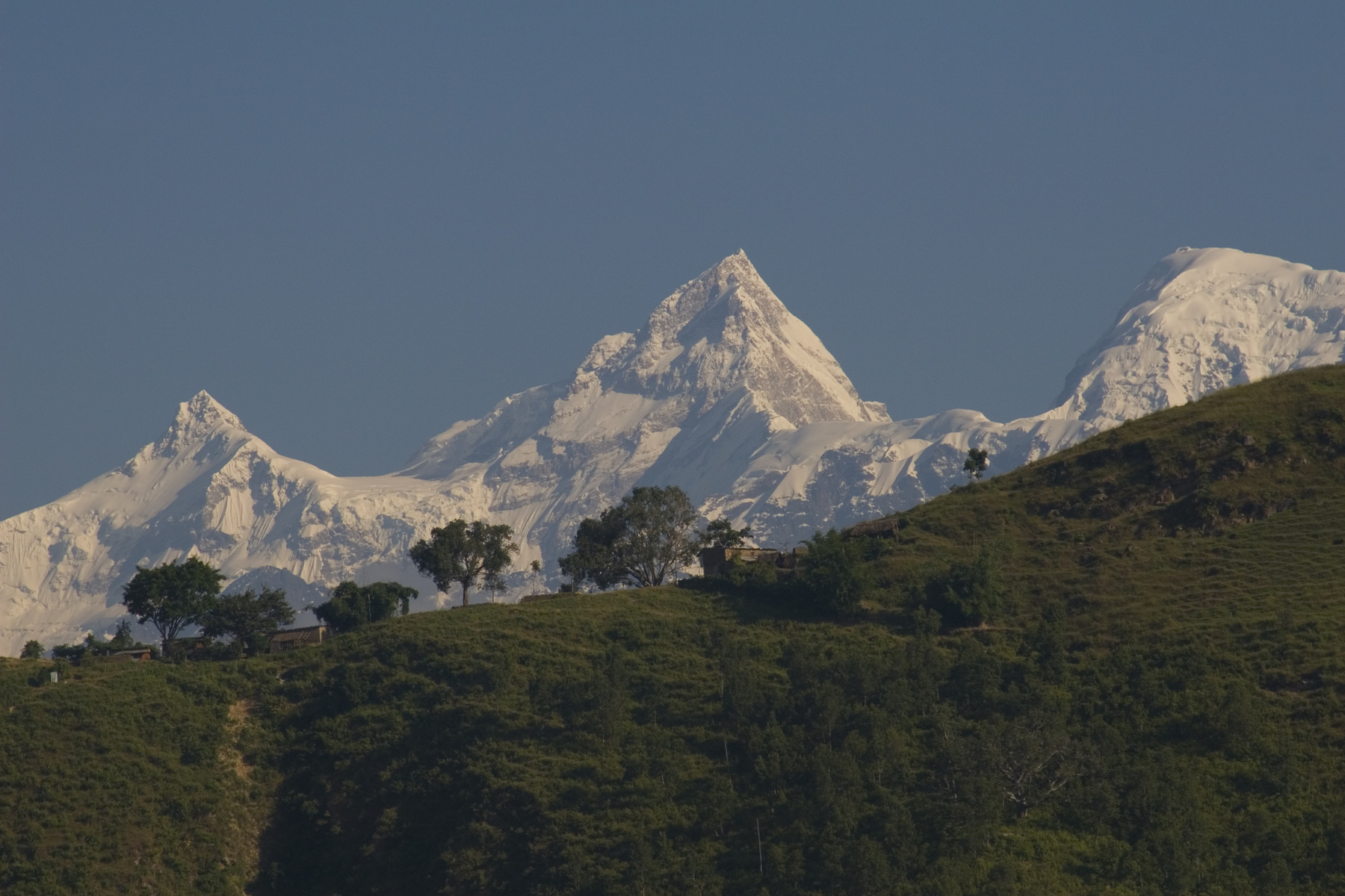 South face of Himalchuli (7893 m). This was taken during out Hike from aarughat to a place called ghyampesal. It's a four hour hike. Nepal.